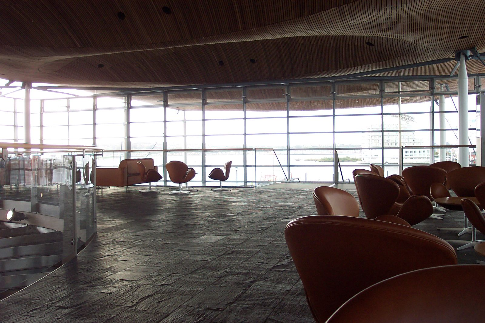 Public space above the Senedd chamber, with views of Cardiff bay. Fritz Hansen "Swan" chairs.